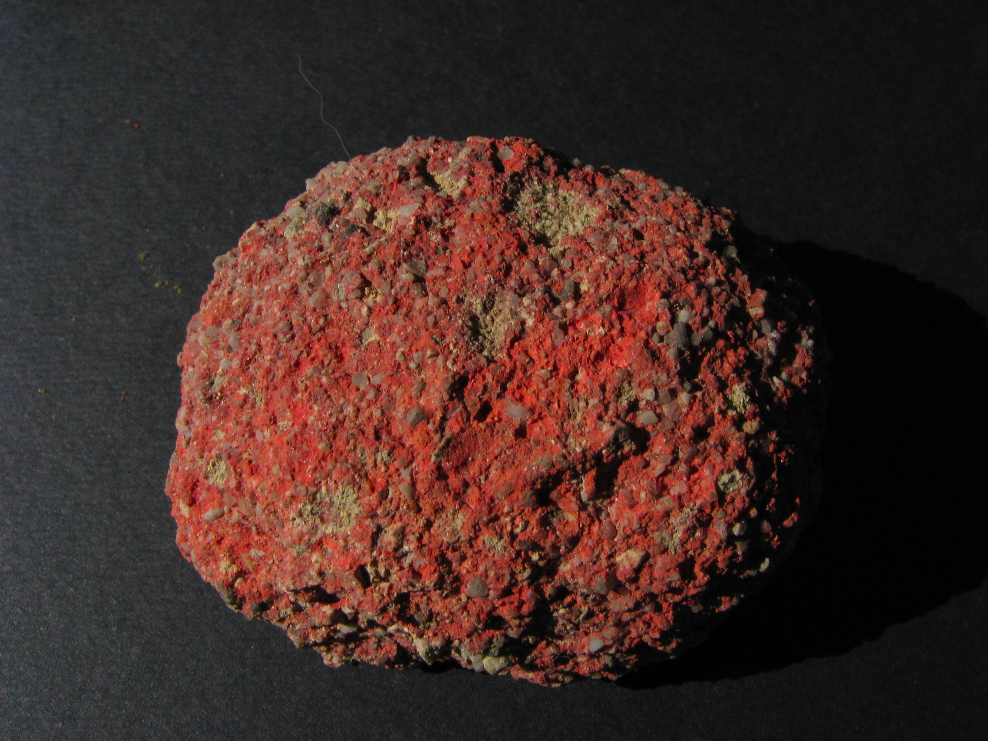 Cinnabar, nodule - Monte Amiata, Toscana, Italy